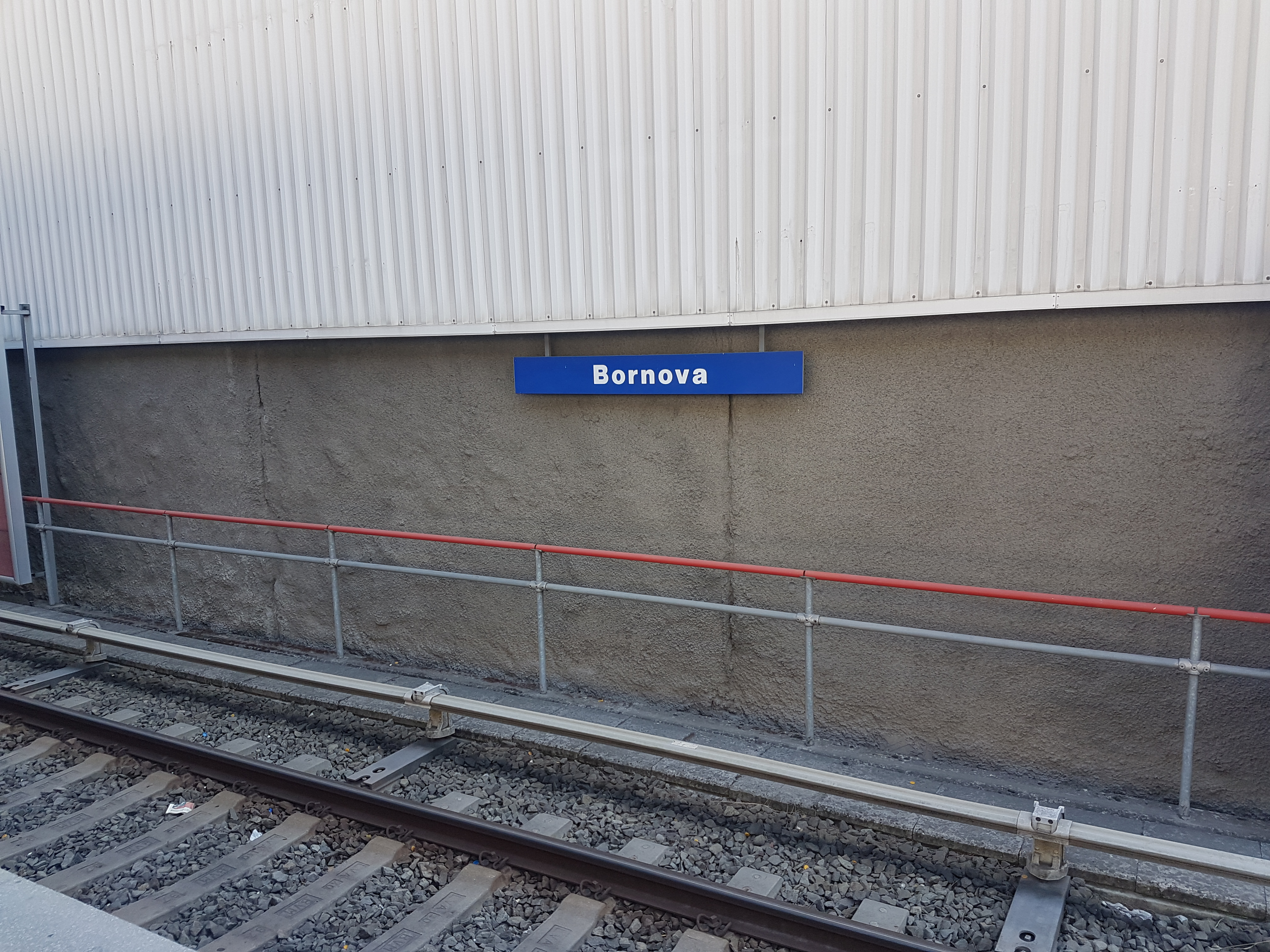 Bornova metro station